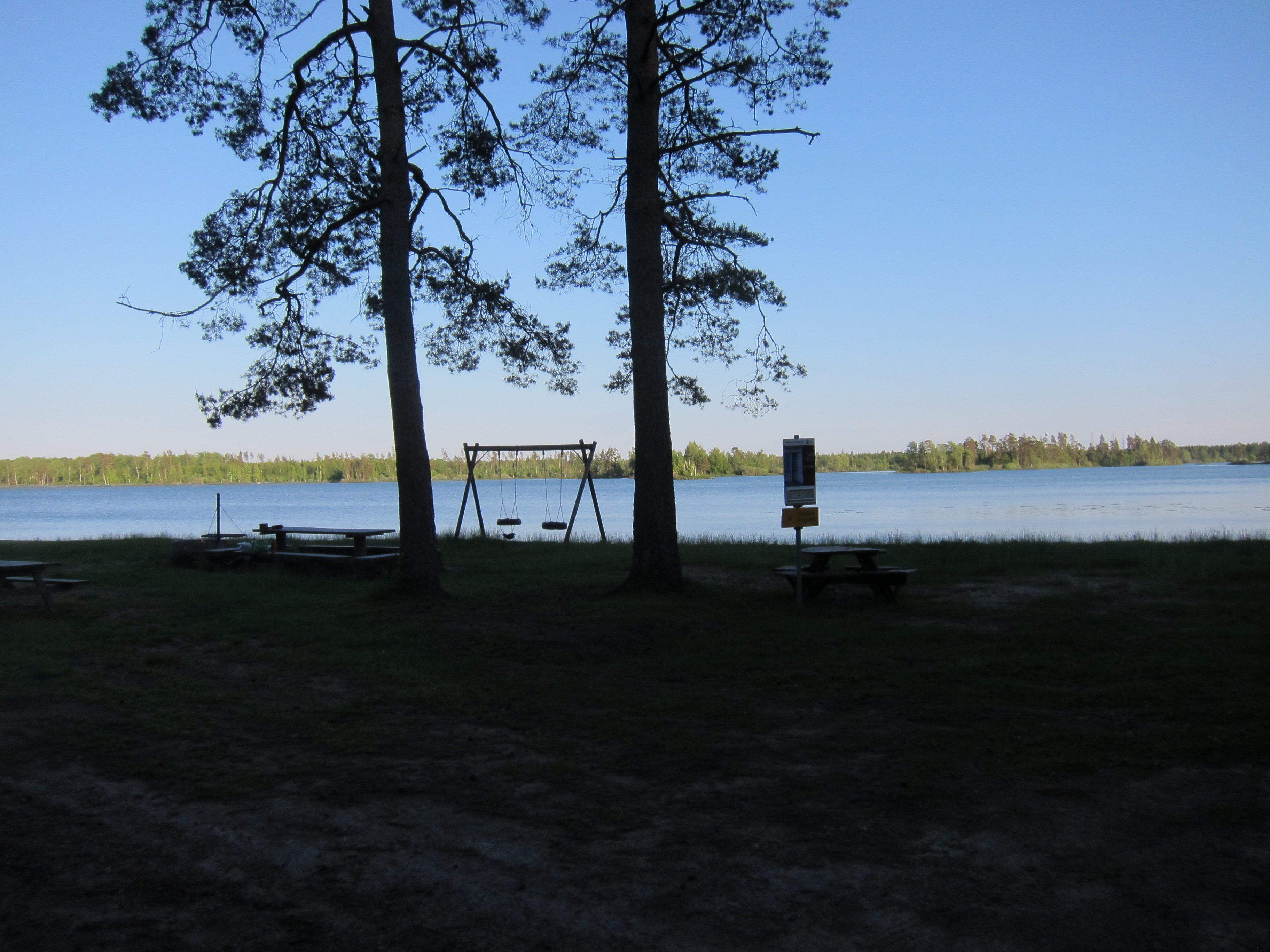 Bathing place of Agunnarydssjön